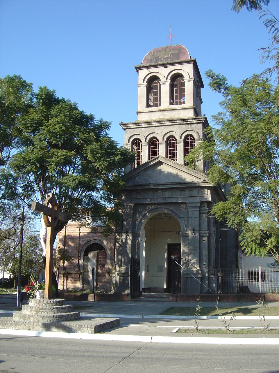 Church in Tafí Viejo, Tucuman, Argentina